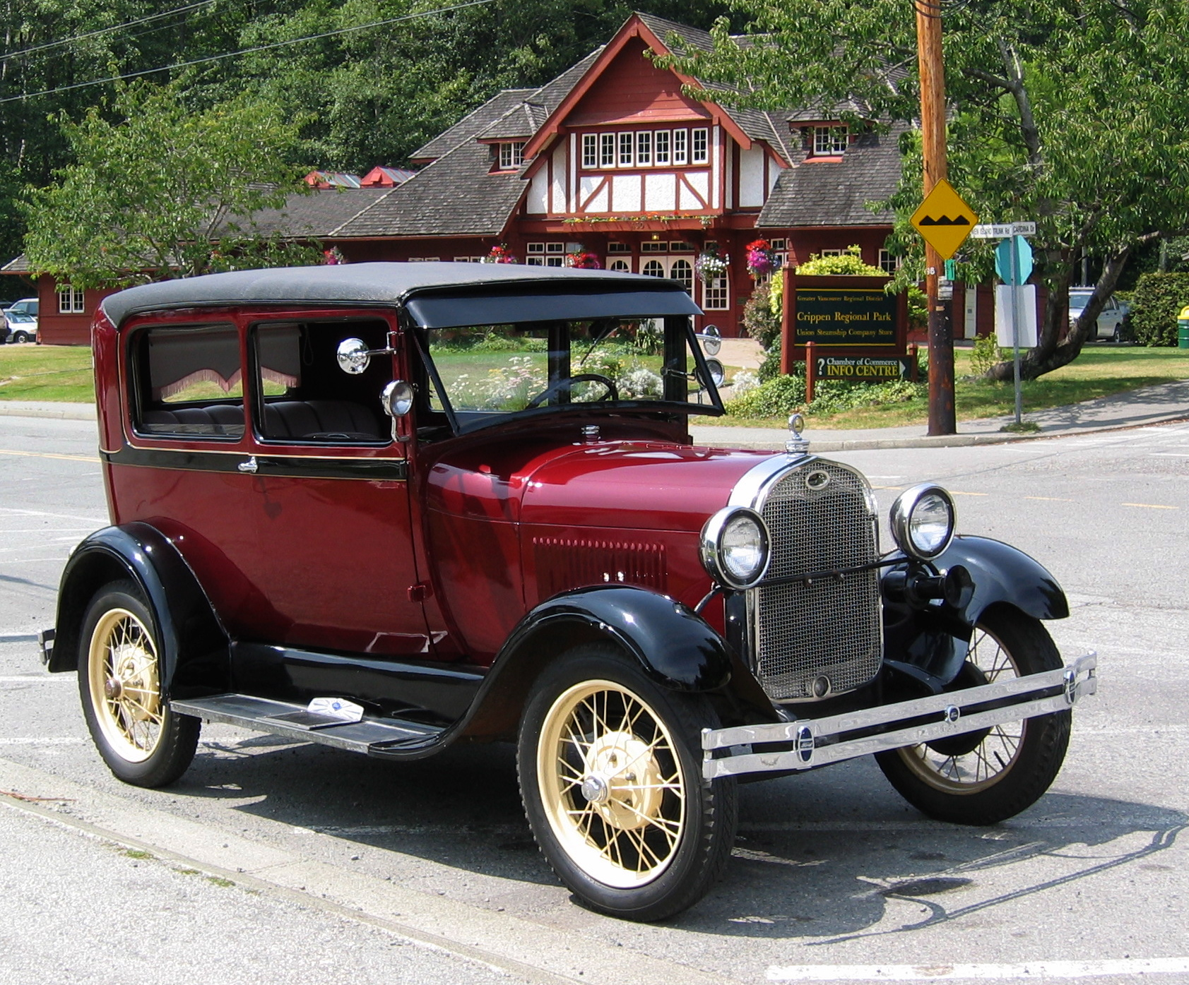 A 1928 Model A Ford in front of Bowen Island Public Library, owned by Dan C. of Bowen Island.